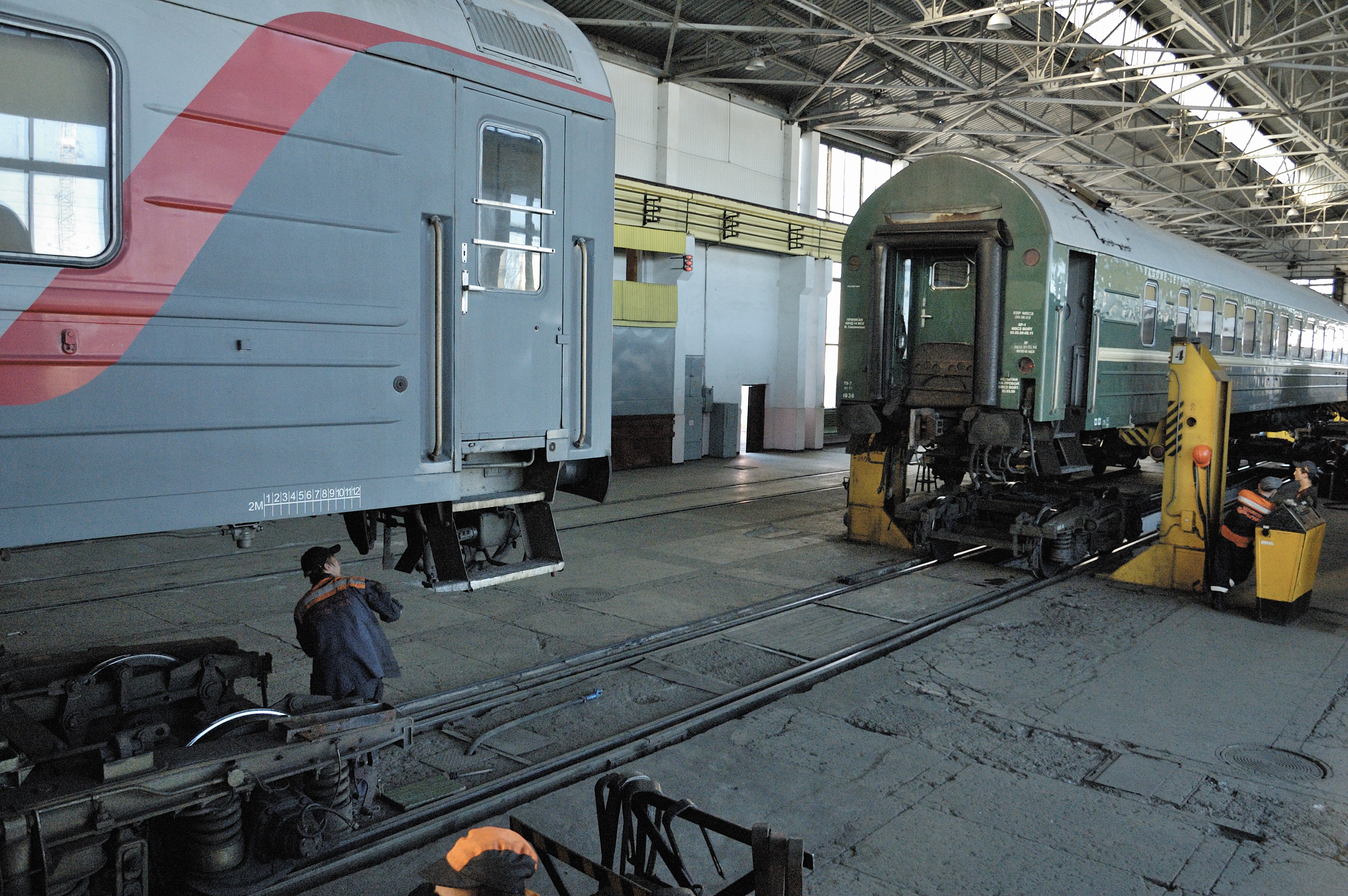 Gauge changing in Brest, Belarus